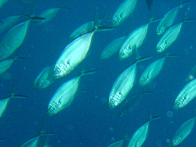 A school of bar jacks in open water - Carangoides ruber. Licensed under a cc-by-2.5 license by the Spanish Government